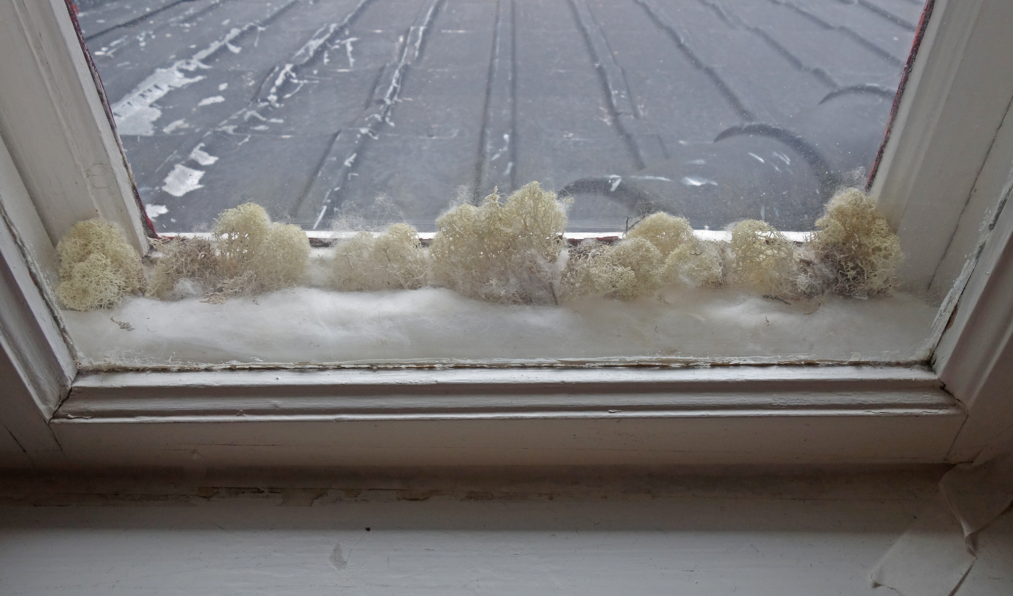 Cladonia stellaris used between outer and inner window to absorb moisture and reduce frost. This traditional use explains the Swedish name "fönsterlav" ("window lichen"). The lichen is here used together with cotton wool.